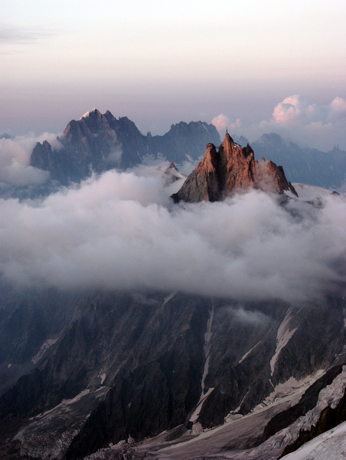 Aiguille du Midi (France, Chamonix) in summer after sundown, seen from the Mont Blanc refuge